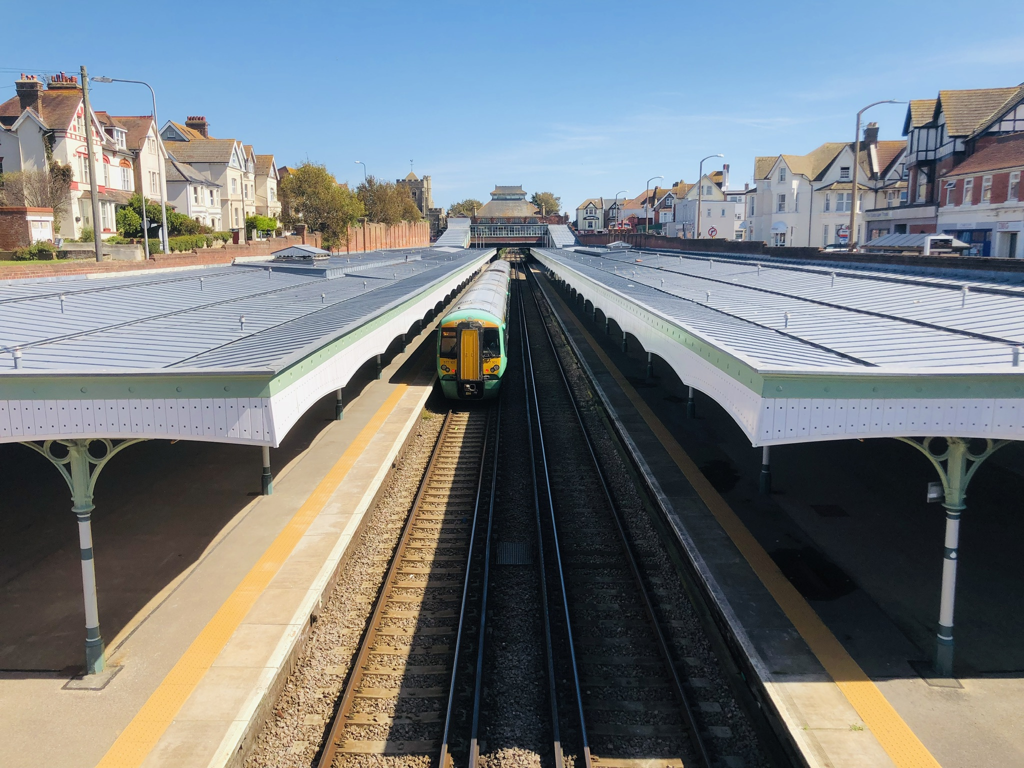 The platforms at Bexhill railway station, looking east towards Hastings, with 377 101 standing at platform 2 forming the 13:02 Southern service from Brighton to Ore. Picture taken from a nearby footbridge.